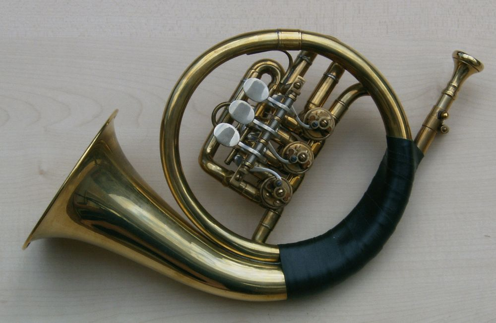 Plesshorn mir Ventilen